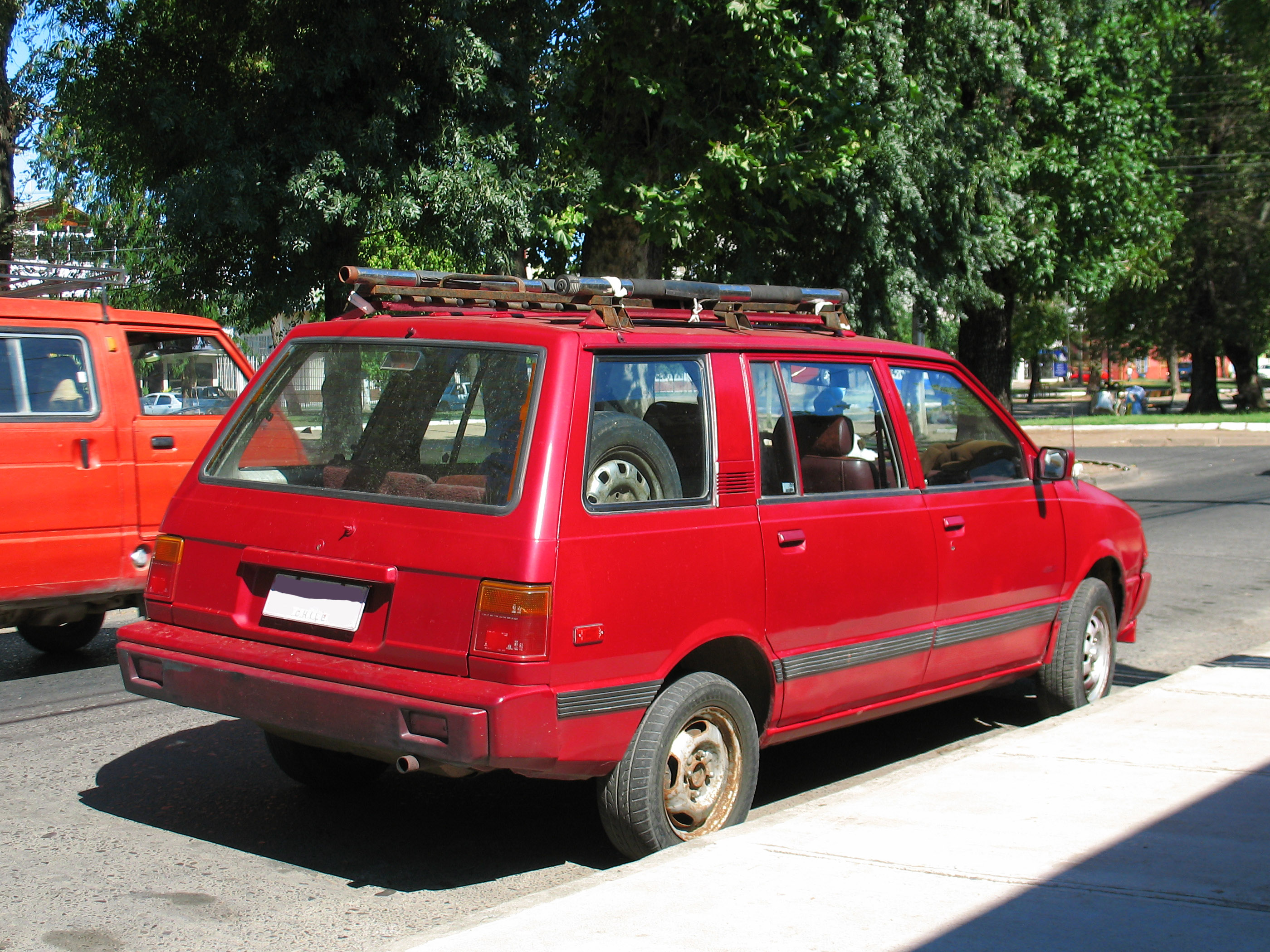 Also sold as Dodge and Mitsubishi